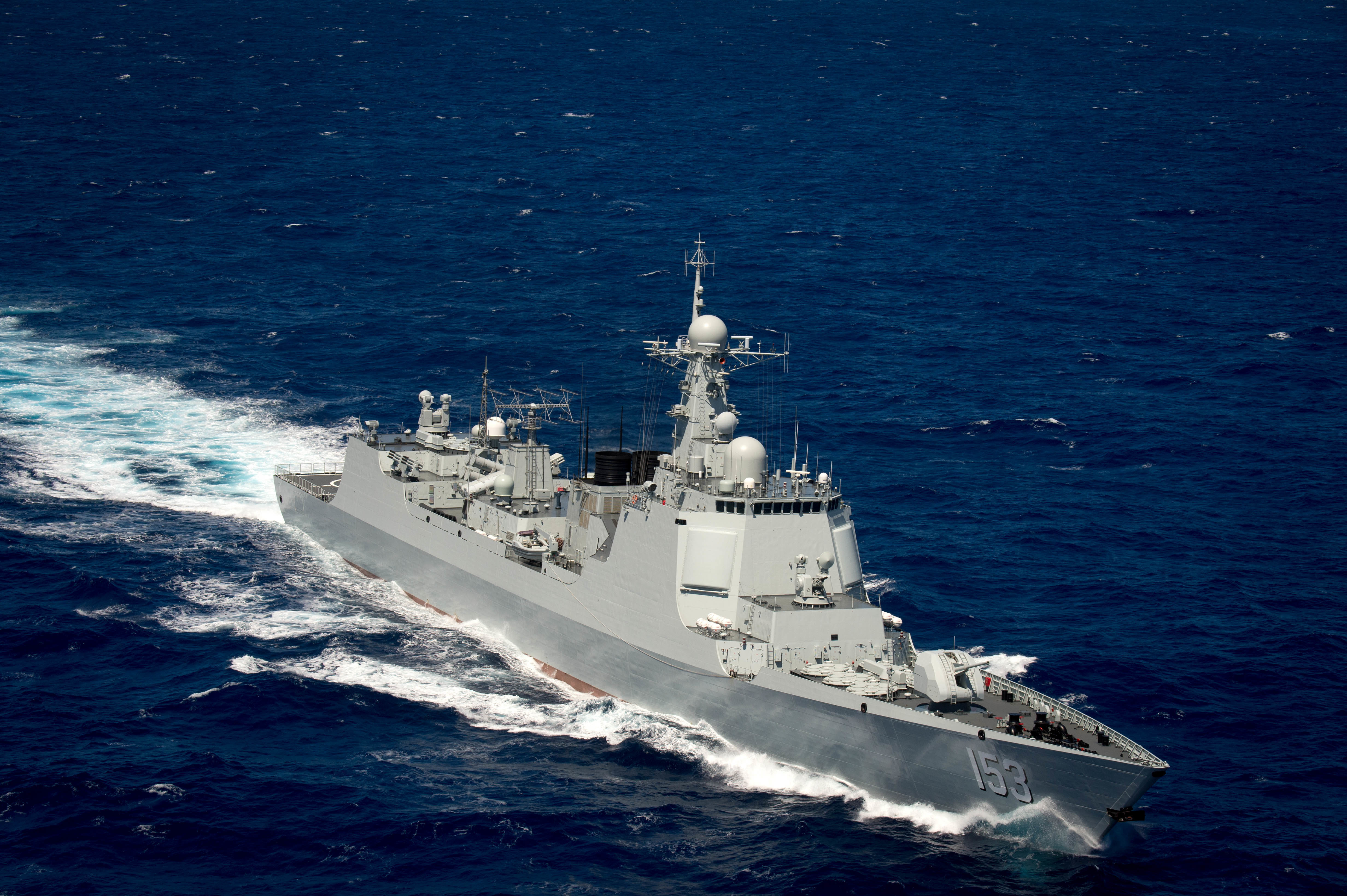 160728-N-SI773-2441 PACIFIC OCEAN (July 28, 2016) Chinese Navy guided-missile destroyer Xian (153) steams in close formation as one of 40 ships and submarines representing 13 international partner nations during Rim of the Pacific 2016. Twenty-six nations, more than 40 ships and submarines, more than 200 aircraft, and 25,000 personnel are participating in RIMPAC from June 30 to Aug. 4, in and around the Hawaiian Islands and Southern California. The world's largest international maritime exercise, RIMPAC provides a unique training opportunity that helps participants foster and sustain the cooperative relationships that are critical to ensuring the safety of sea lanes and security on the world's oceans. RIMPAC 2016 is the 25th exercise in the series that began in 1971. (U.S. Navy Combat Camera photo by Mass Communication Specialist 1st Class Ace Rheaume/Released) Unit: Commander, U.S. 3rd Fleet